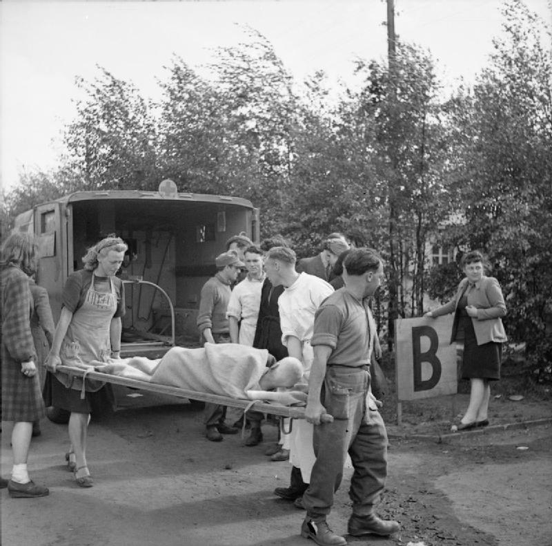 The Liberation of Sandbostel Concentration Camp, May 1945 German workers assist with the movement of typhus cases from Sandbostel Concentration Camp to 10 Casualty Clearing Station, which is located close to the camp.